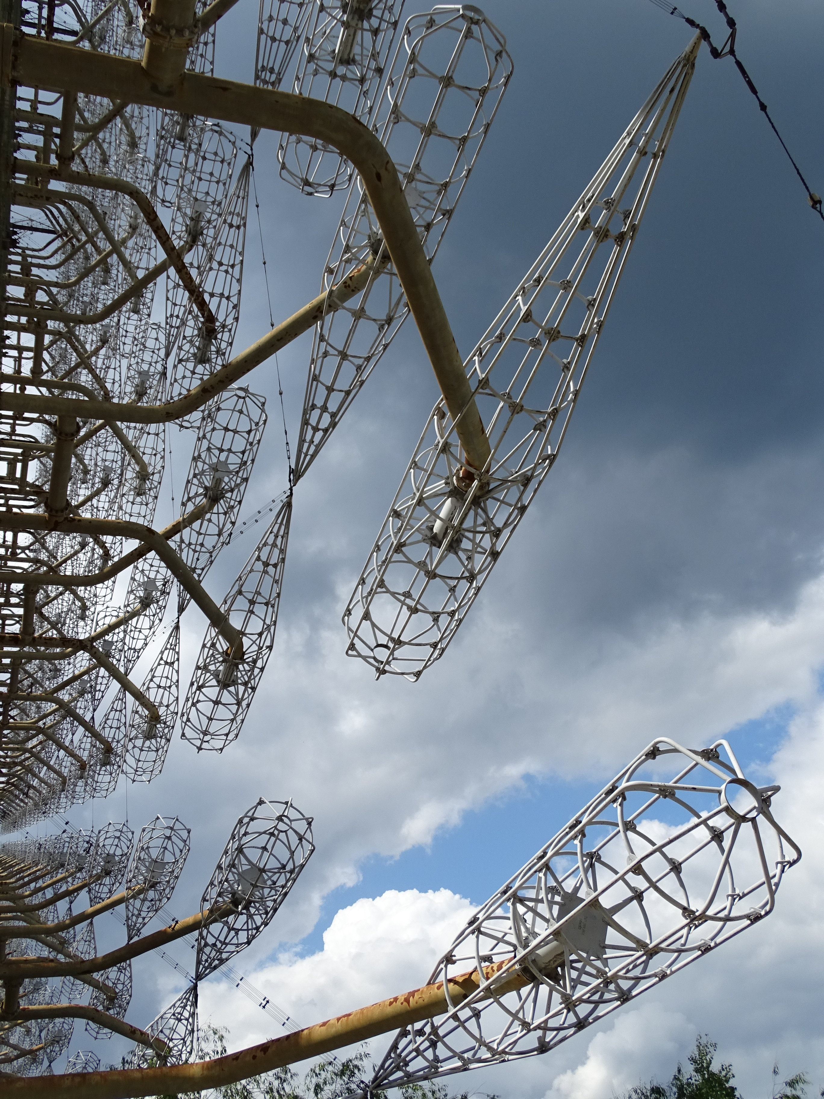 Abandoned Soviet Over-the-Horizon Radar Array - Chernobyl Exclusion Zone - Northern Ukraine - 10